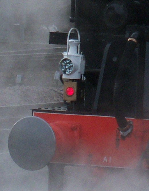 Brand new steam locomotive 60163 Tornado in Newcastle Central Station on her maiden main line passenger journey, The Peppercorn Pioneer